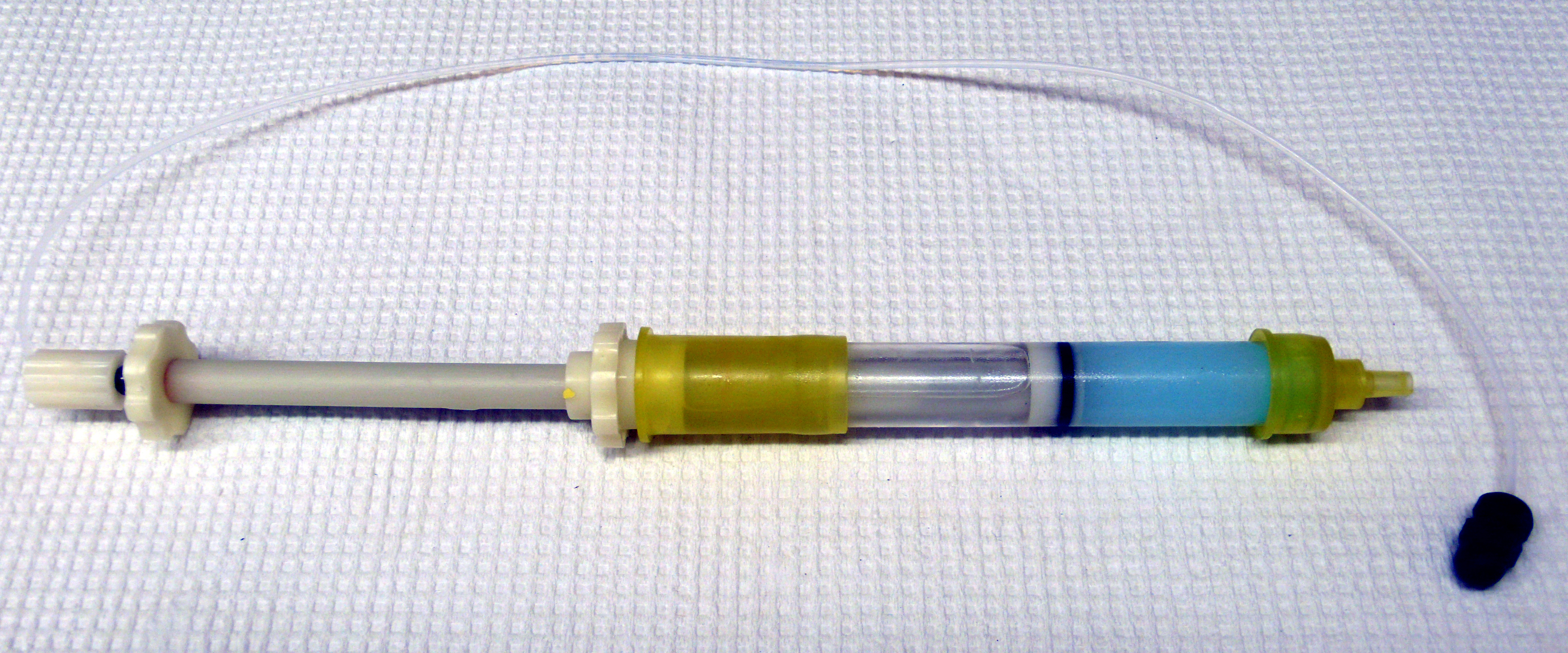 Metal-affinity column, loaded with nickel. Use to purify his-tagged recombinant proteins.